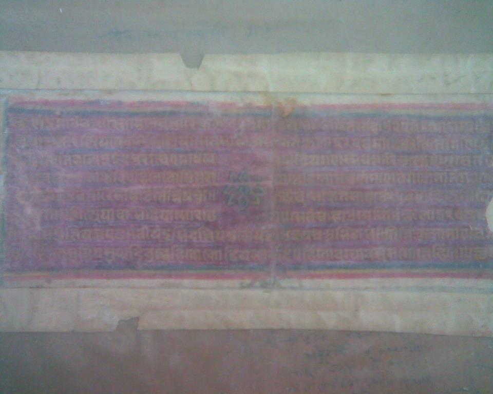 समर्थांनी कल्याण स्वामींना दिलेला 'कित्ता'.यावर काय लिहिले आहे ते कळत नाही.